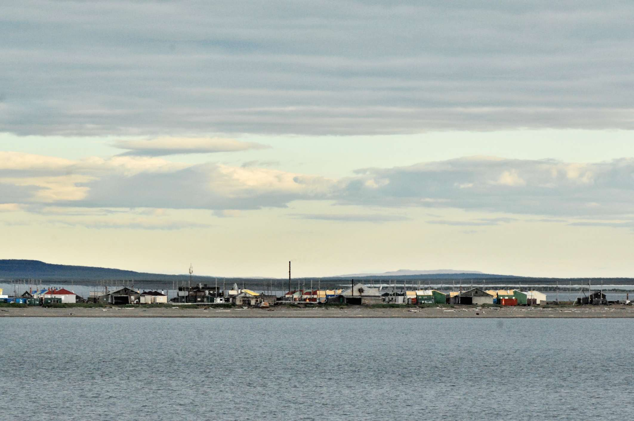 Vankarem Village (Chukchi Sea, Russia; 67°50‘35’’N, 175°50’9’’W)